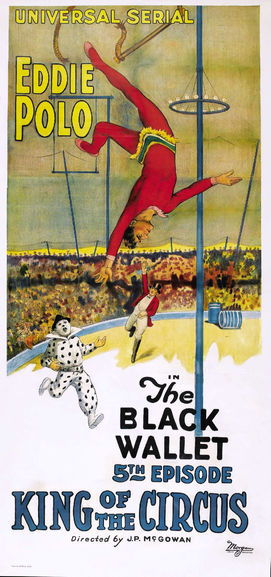 Poster from the 1920 serial King of the Circus.